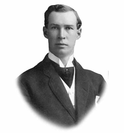 Picture of Chaucer Elliott, a Canadian sportsman, a Hockey Hall of Fame referee and linesman, and a coach of the Toronto Argonauts. He is the grandfather of Bob Elliott, a well-known sports writer in Canada.